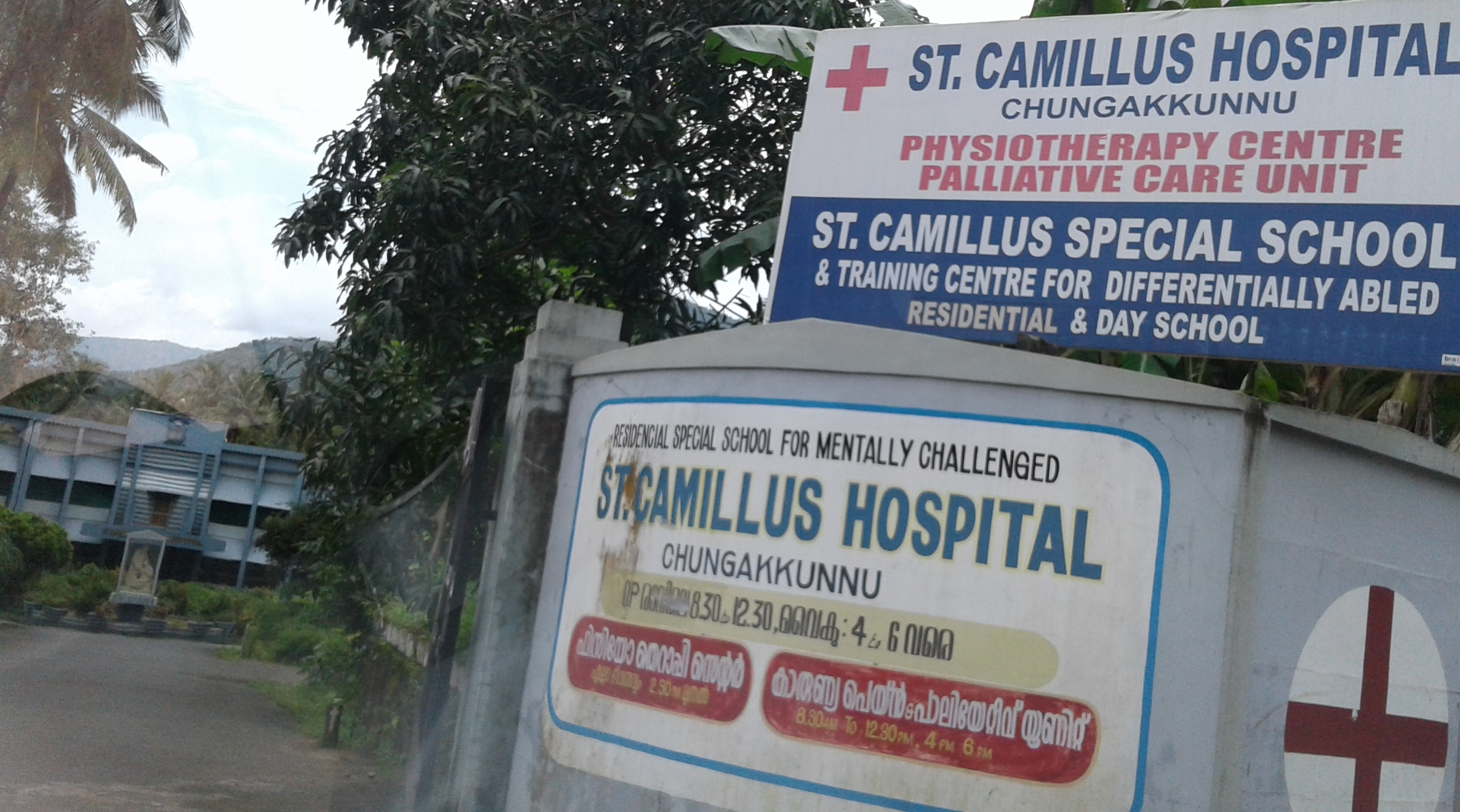 Hospital Near Chungakkunnu